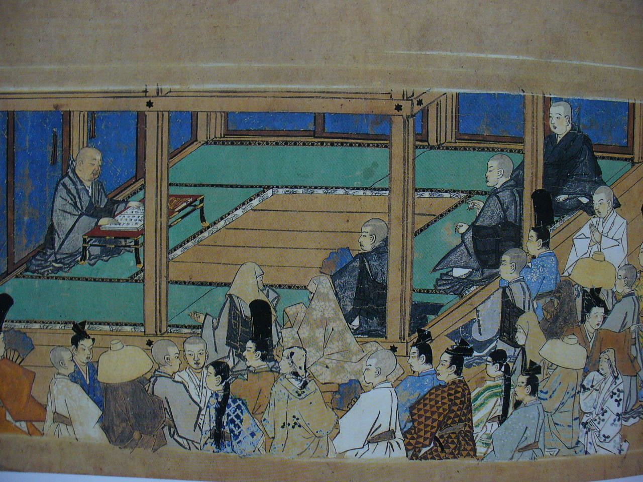 Honen shonin eden - Chion-in version - Jodo-shu creation